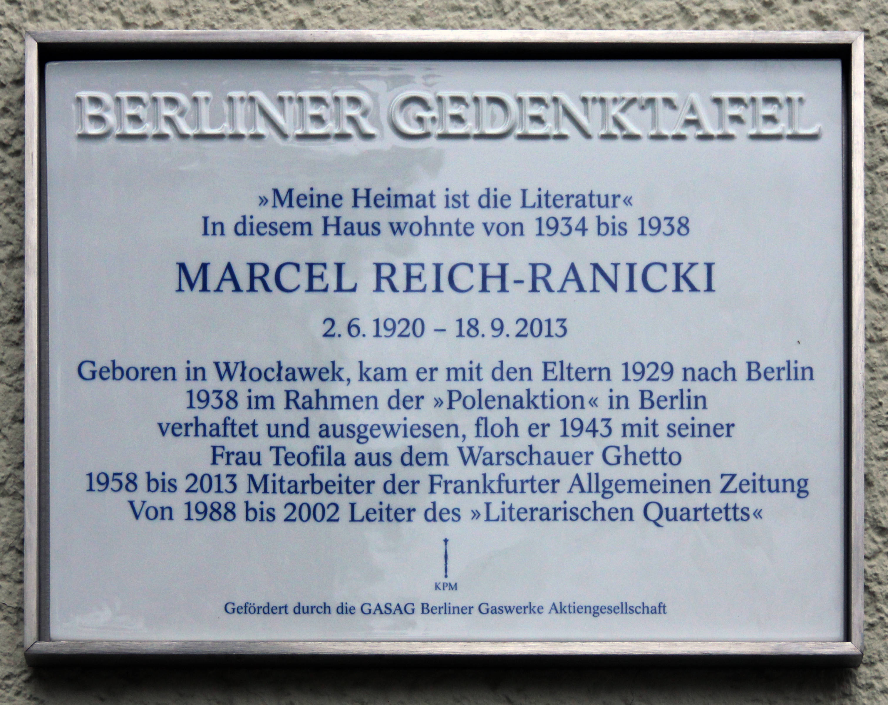 Berlin memorial plaque, Marcel Reich-Ranicki, Güntzelstraße 53, Berlin-Wilmersdorf, Germany